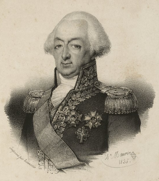 French naval commander of the French Revolutionary Wars and Napoleonic Wars François Étienne de Rosily-Mesros